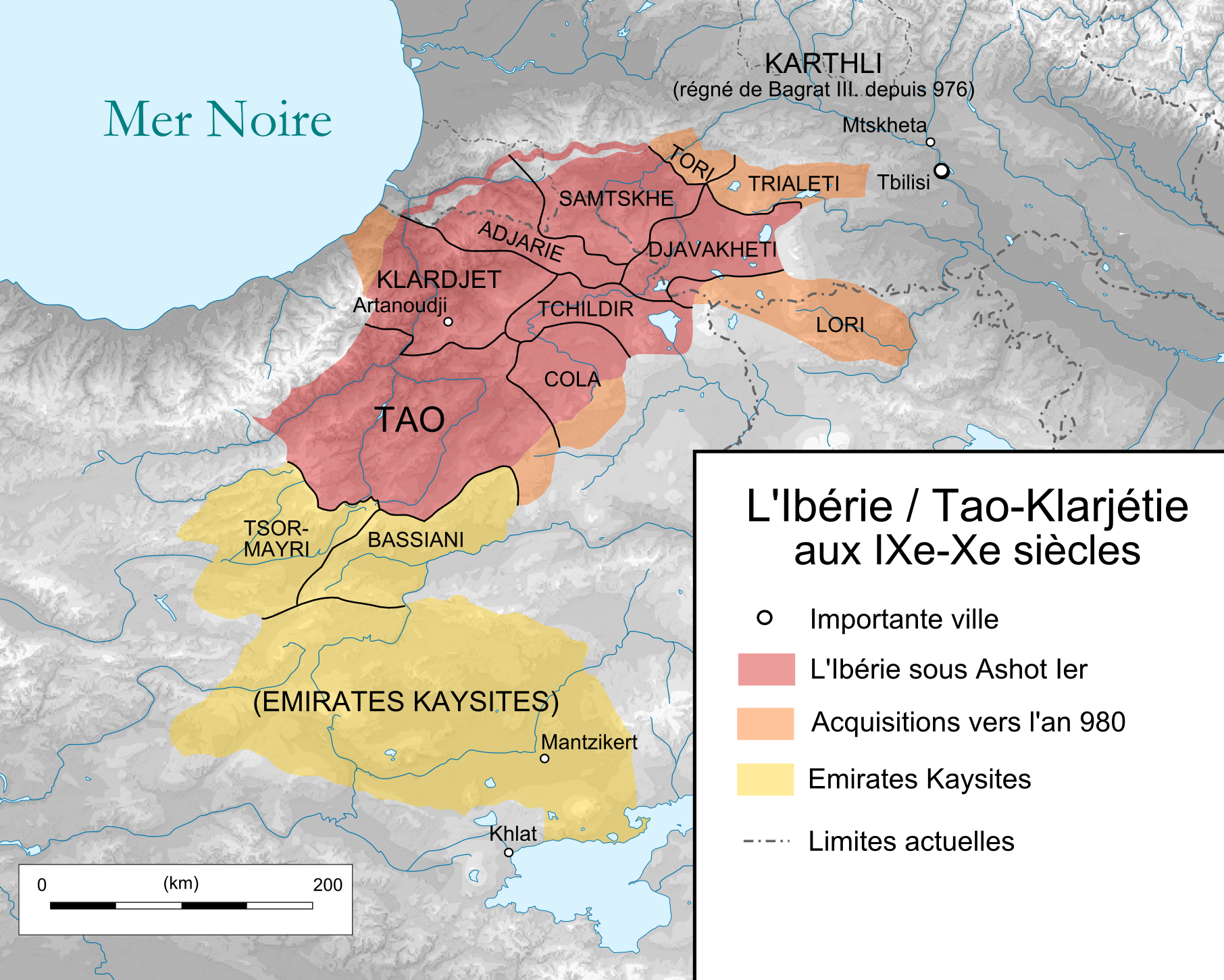 Pincipalities and other domains of Iberia during the 9th and 10th centuries.